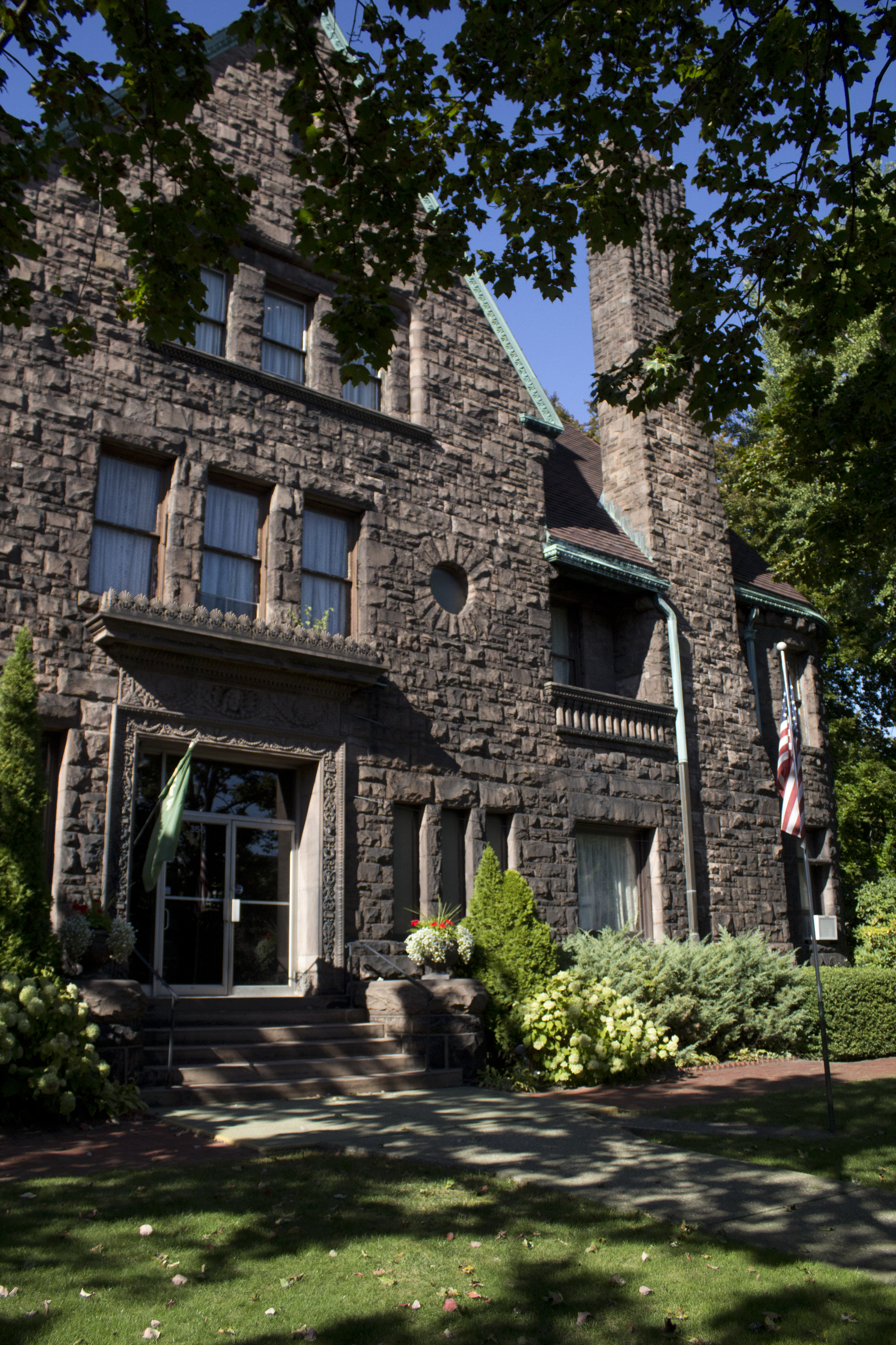 Watson-Curtze Mansion Front of the building, main entrance.